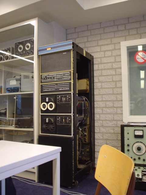 A Digital Equipment Corporation PDP-15 in The Varesezaal at the Royal Conservatory in The Hague, The Netherlands.